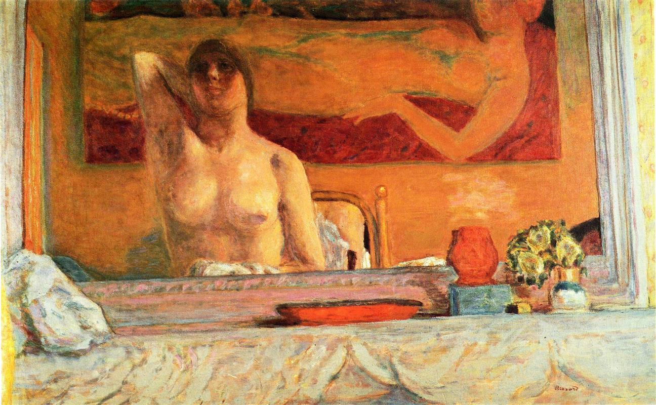 Painting by Pierre Bonnard